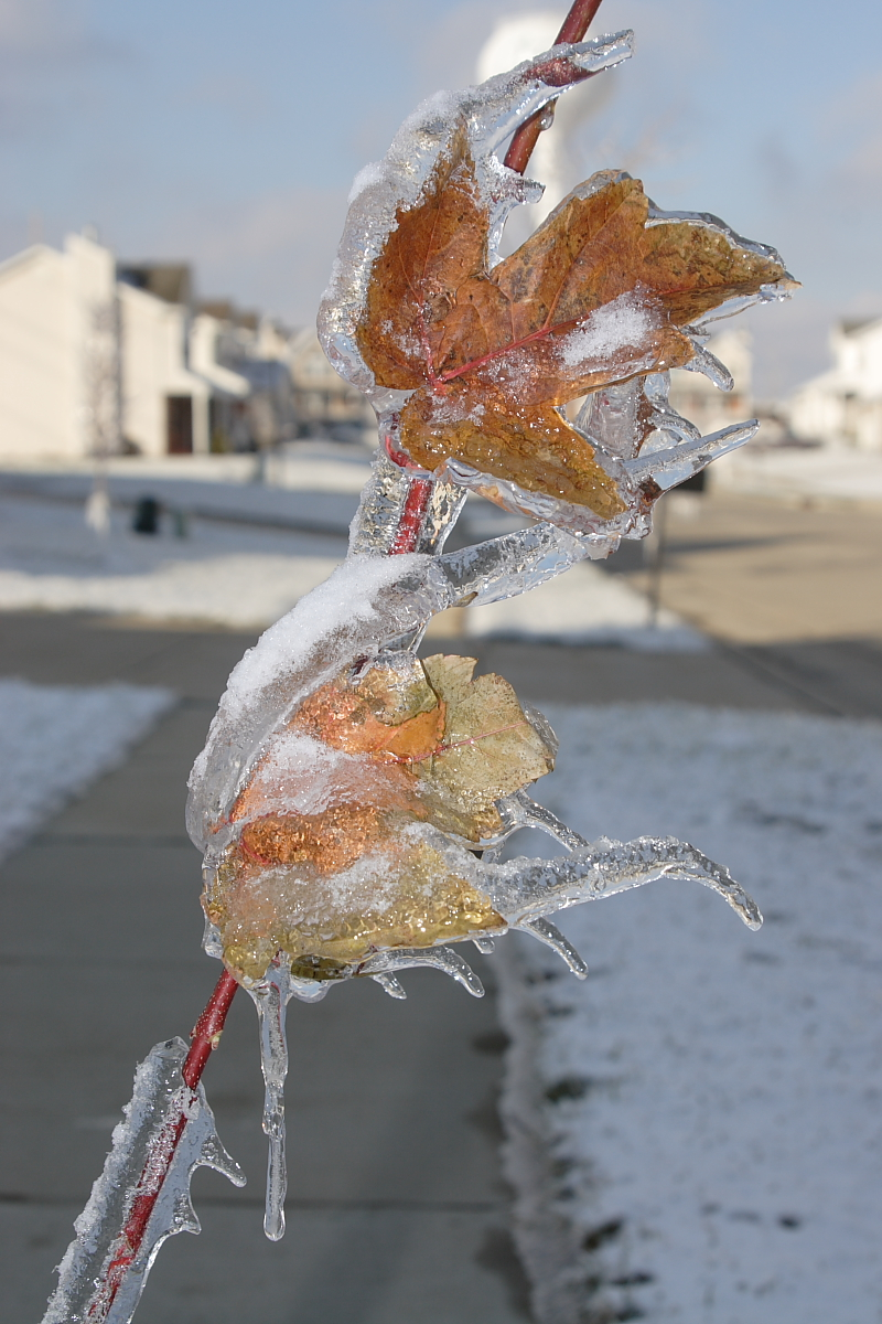 Leaves following an ice storm. Note the icicles forming at different angles. This occurs over time as the ice increasingly weighs down the branch.